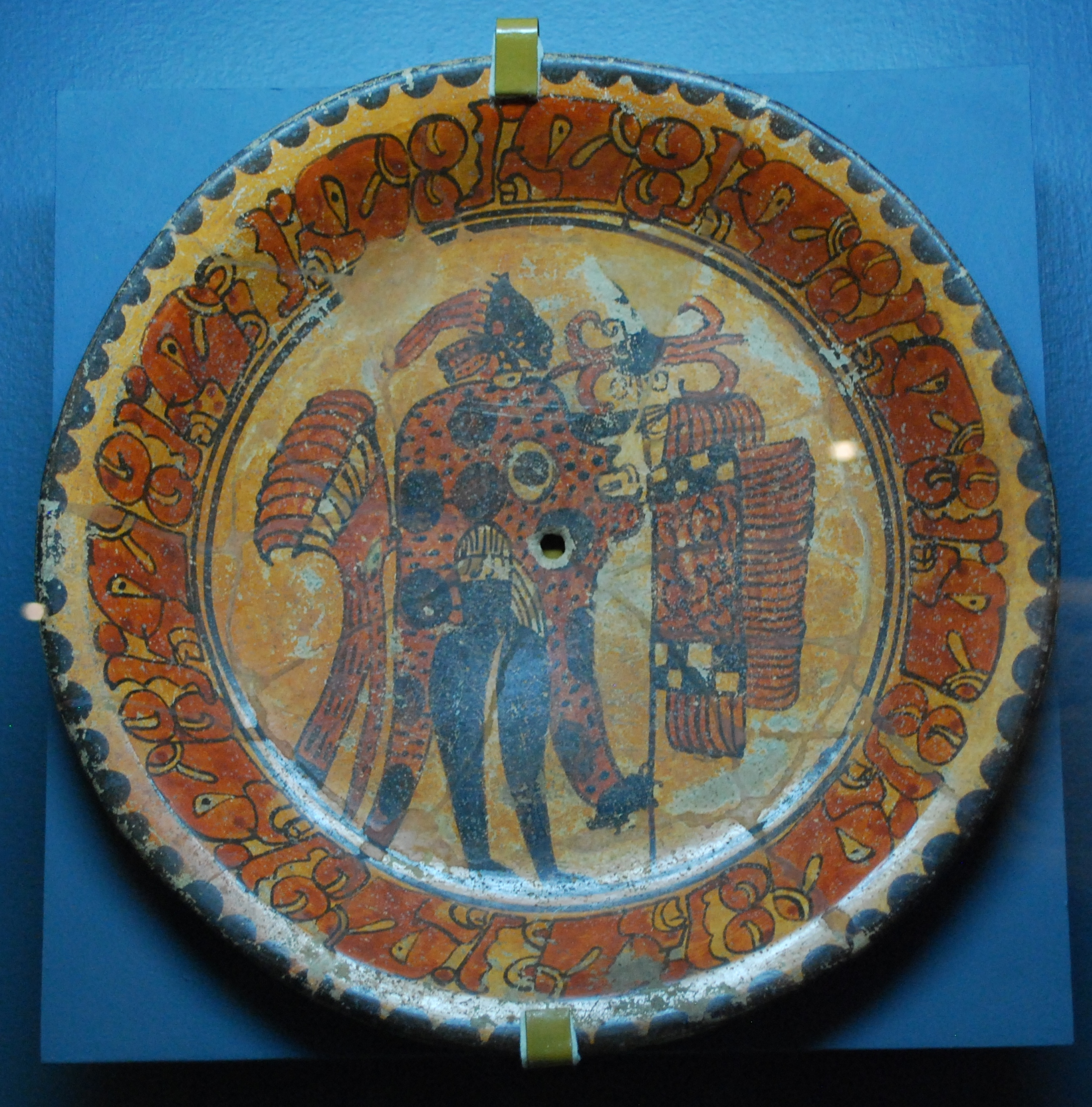 Ceramic showing Maya warrior with spear on display at the Regional Museum in Tuxtla Gutierrez, Chiapas, Mexico